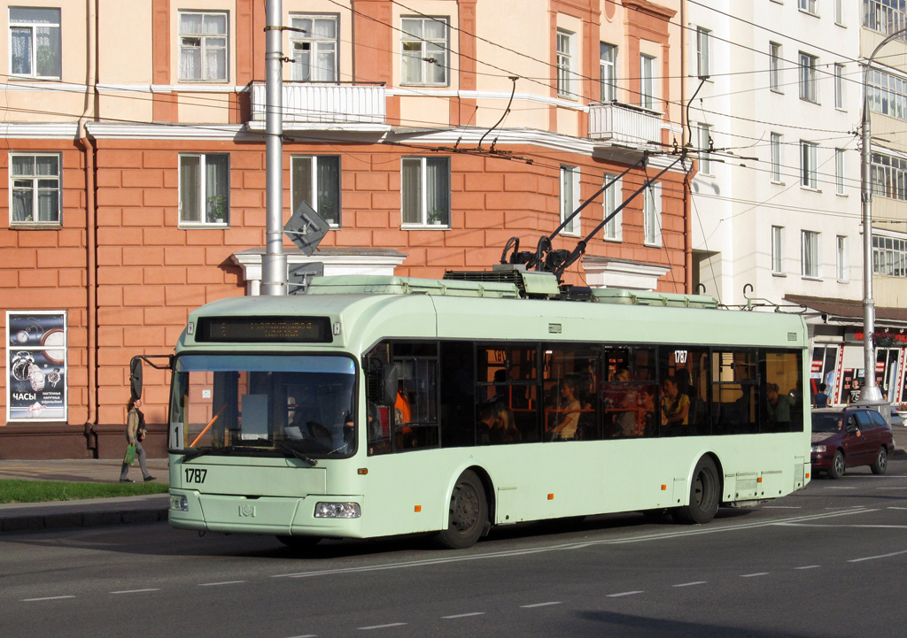 Gomel/Homieĺ trolleybus 1797, a 2010-built AKSM-321, on route 1 in 2015